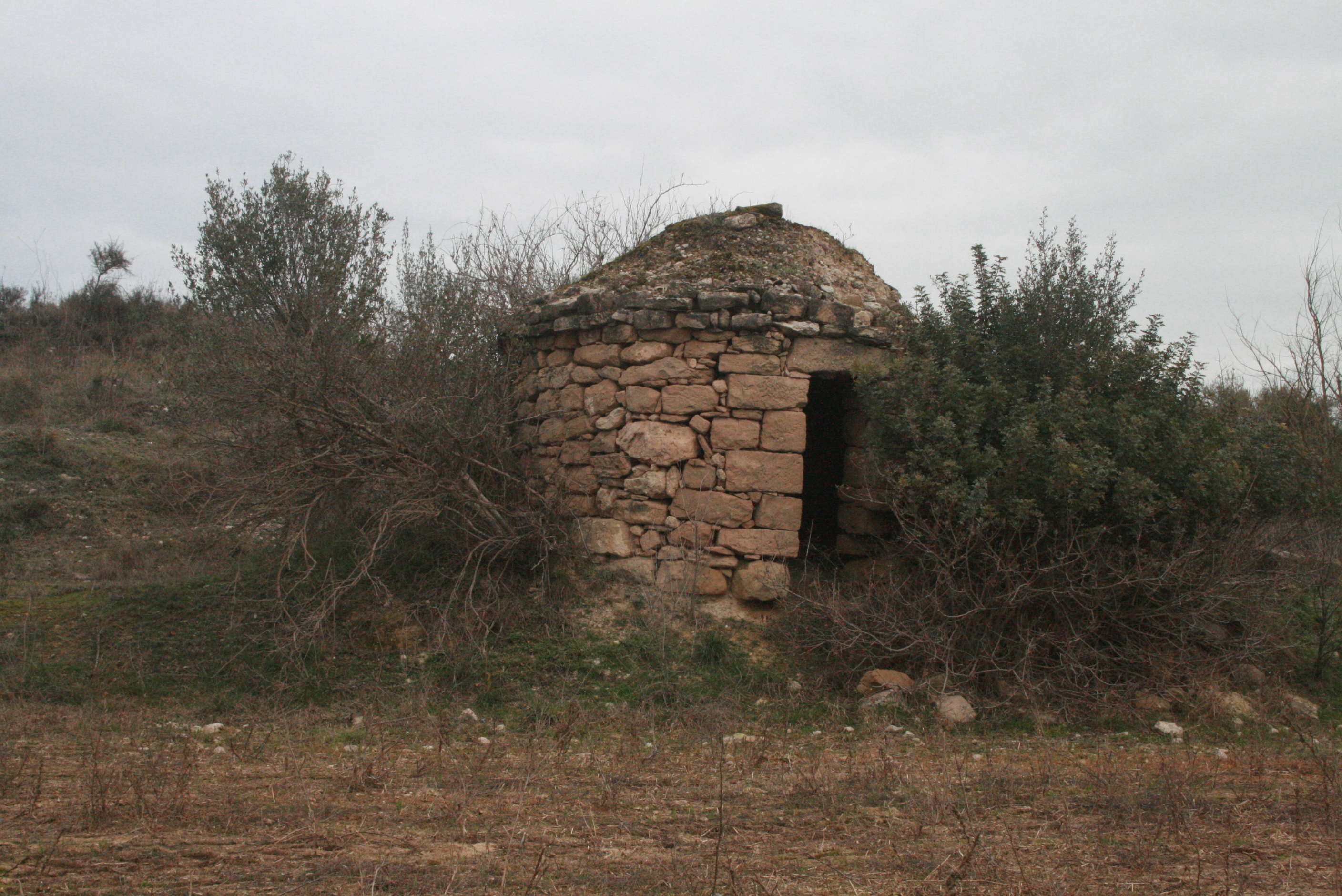 Dry stone hut near Manresa, Catalonia